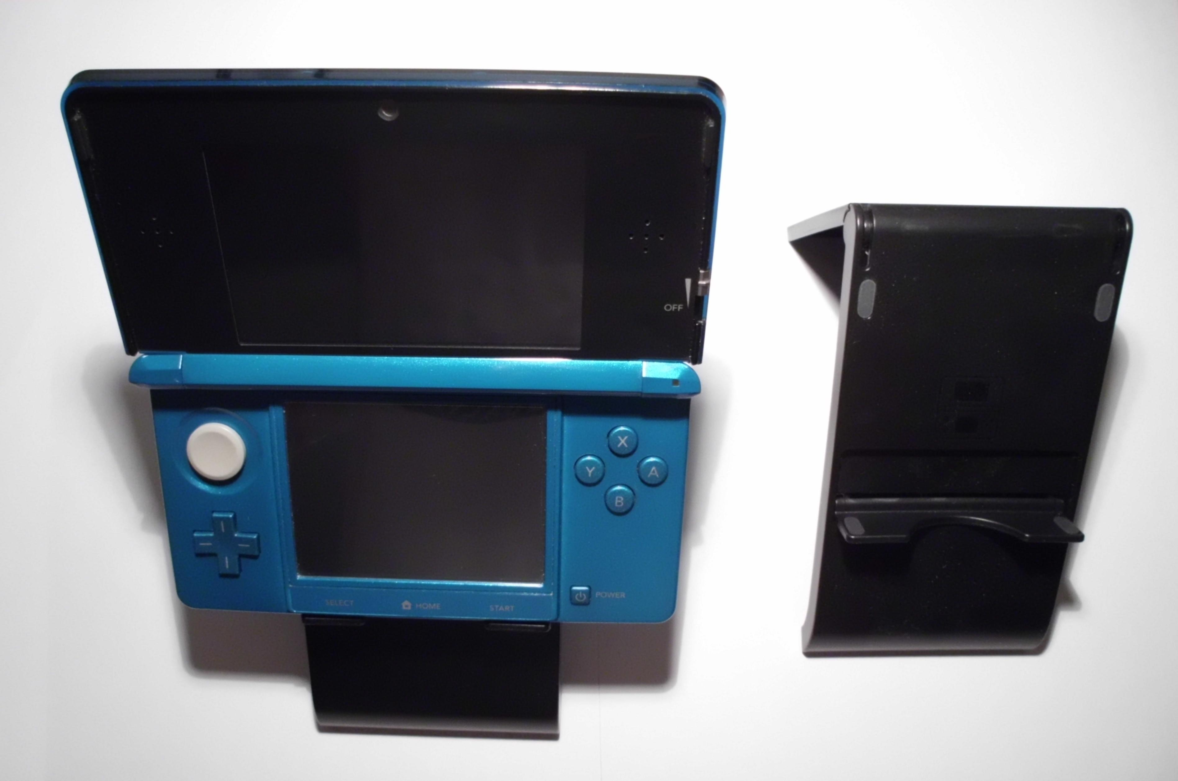 3DS + Stand (left), Stand only (right) (for Kid Icarus: Uprising)